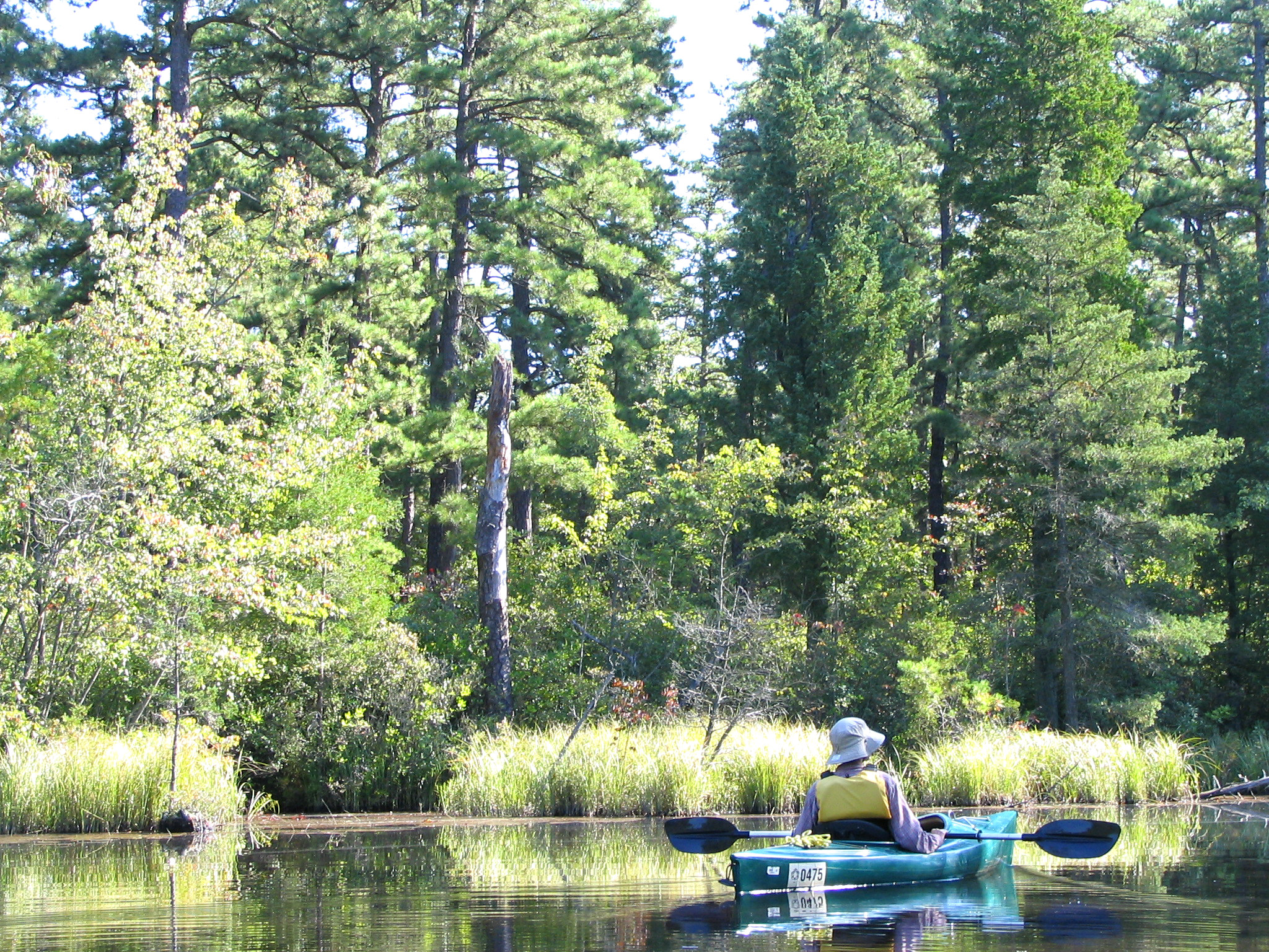 Kayaking on the Mullica River. Taken by User:Mwanner, 9 September, 2005